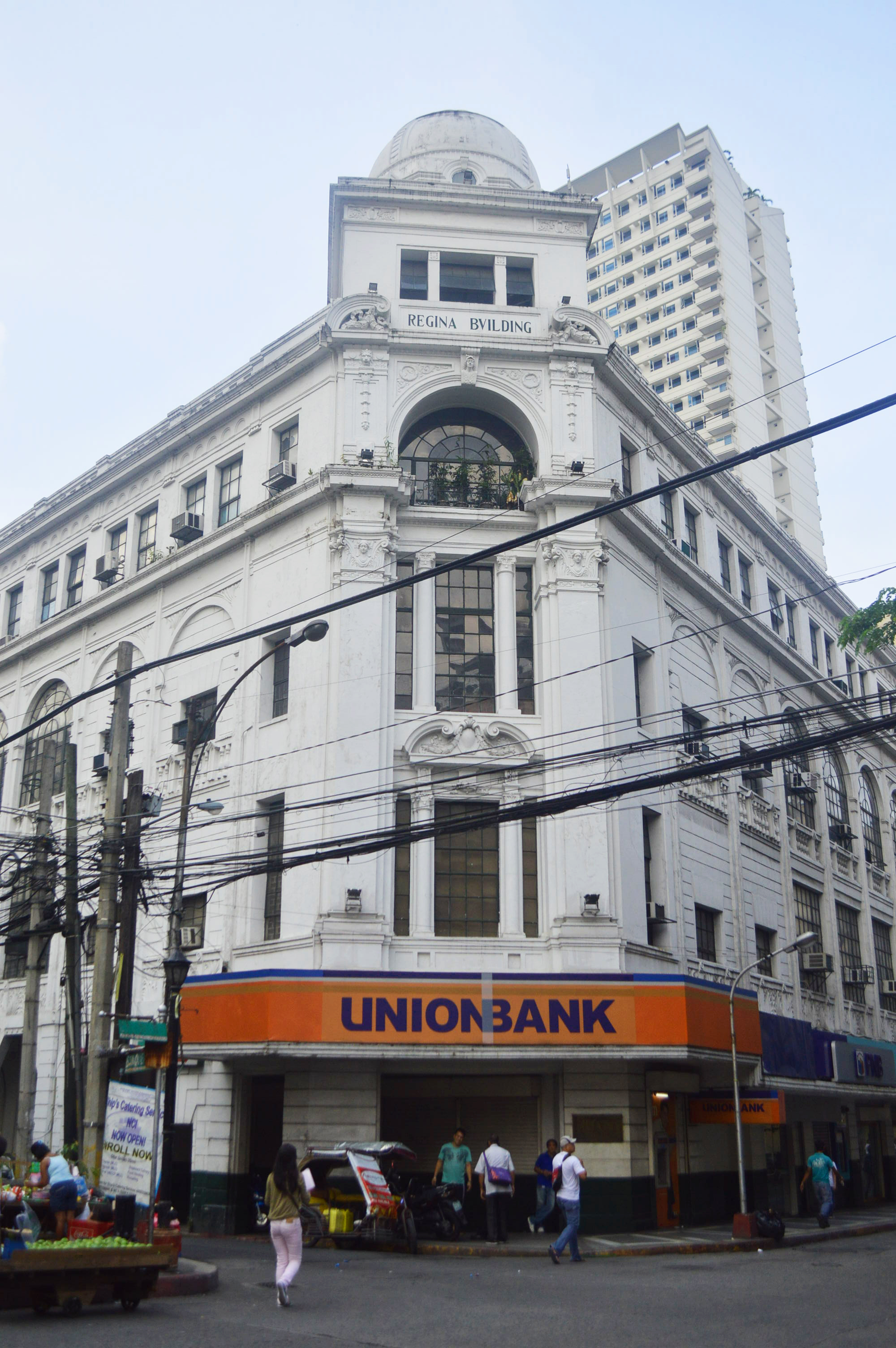 Corner main facade of the Regina Building where the dome cap is located.